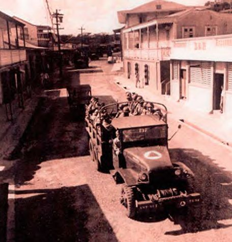 Aggressor troops, 65th Infantry Regiment, stationed in Puerto Rico, are convoyed through the town of Isabel Sugunda to the maneuver area for PORTREX. - 6 March 1950.